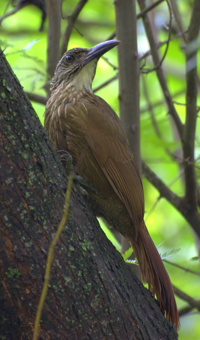 White-throated Woodcreeper (Xiphocolaptes albicollis). São Paulo Botanic Garden (Brazil).